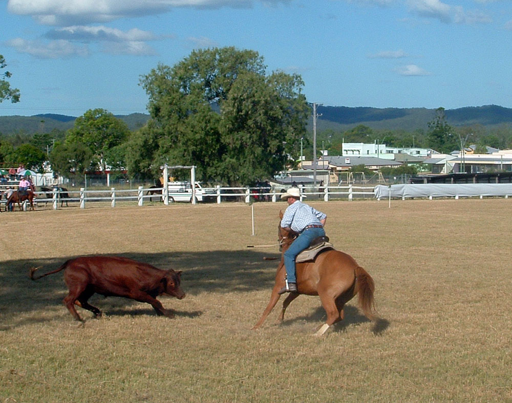 Biggenden Charity Campdraft which raises money for Queensland Cancer Fund and the Leukaemia Foundation.